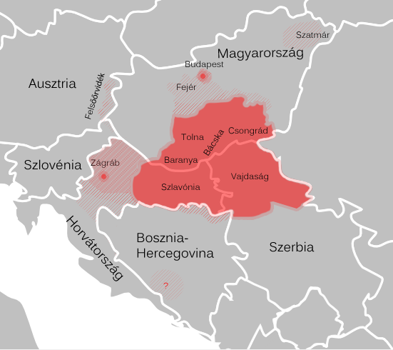 The incidence area of The "Central European" tambura.